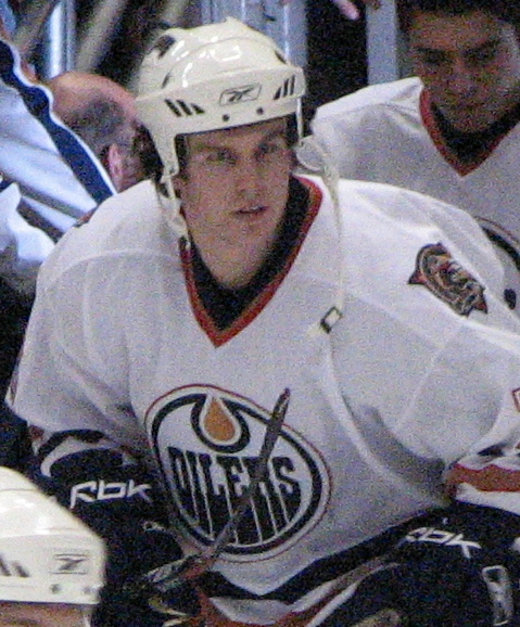 Start of warm-up period